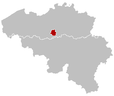 Brussels location